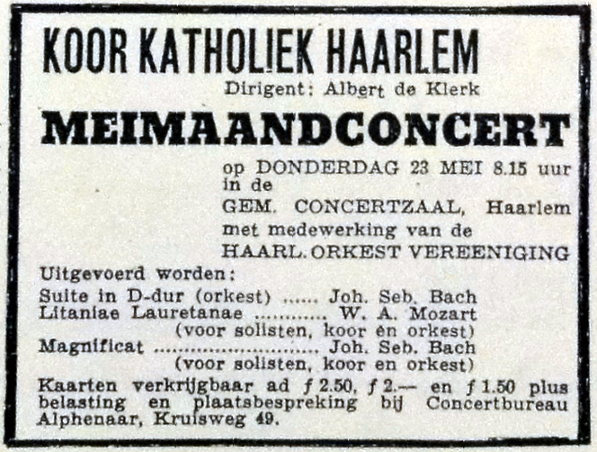 Announcement of first public concert of the Concertkoor Haarlem (formerly Koor Katholiek Haarlem)